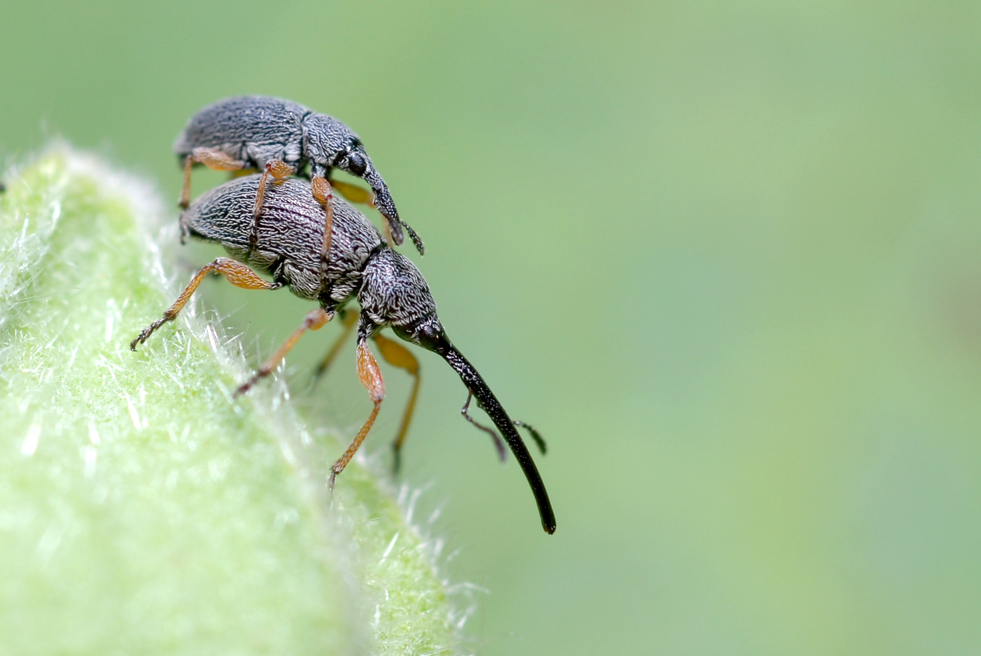 This weevil is an alien species in Europe living on the ornamental plant Alcea rosea (Common Hollyhock).